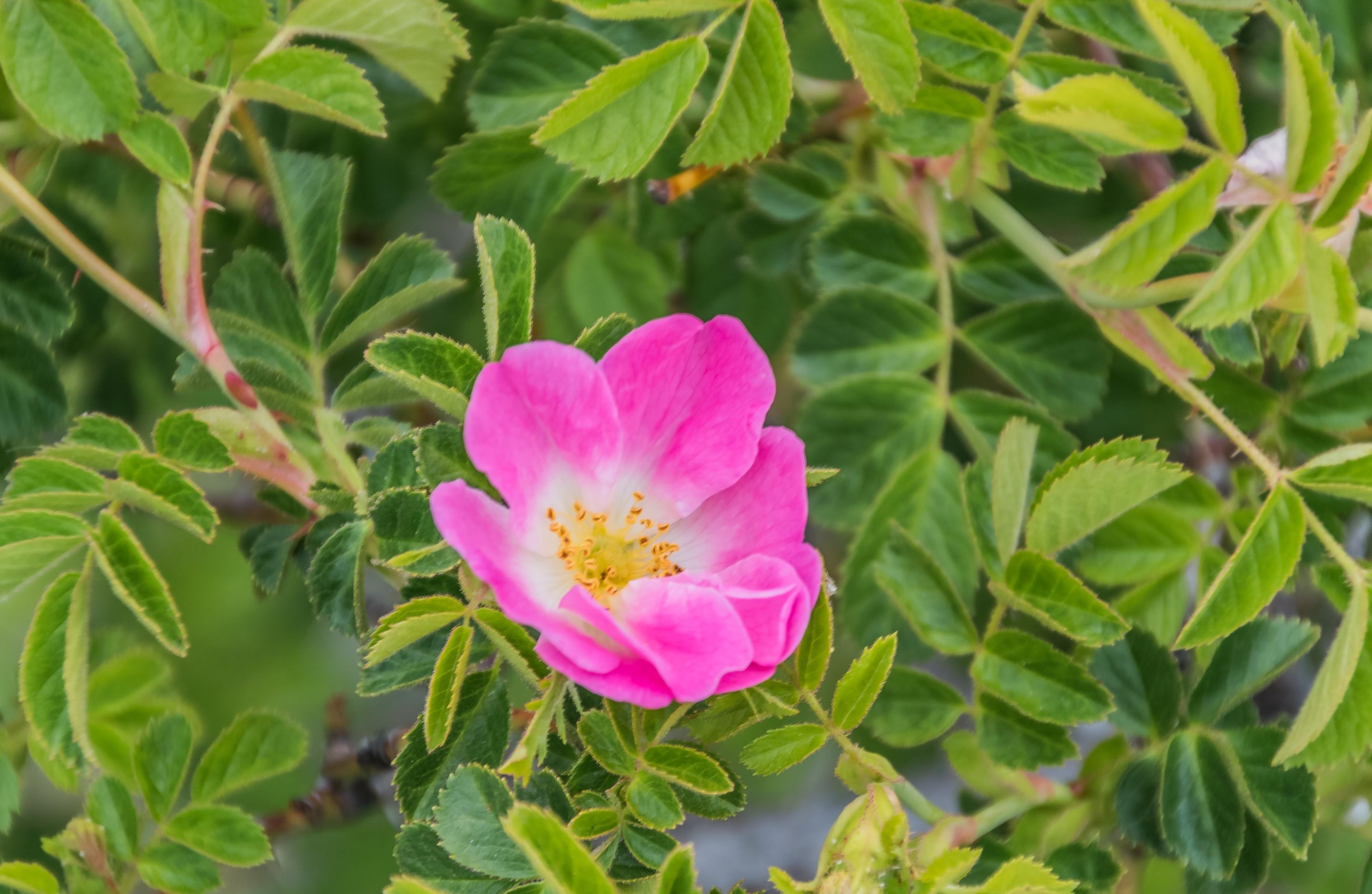 Rosa rubiginosa near Lake Pukaki in the South Island, New Zealand